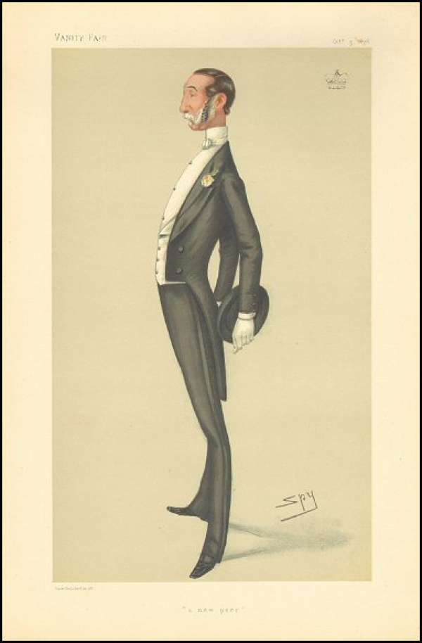 Statesmen No.285: Caricature of Lord Gerard. Robert Tolver Gerard (1808-1887) became the new Baron Gerard in 1876. Caption reads: "a new peer"